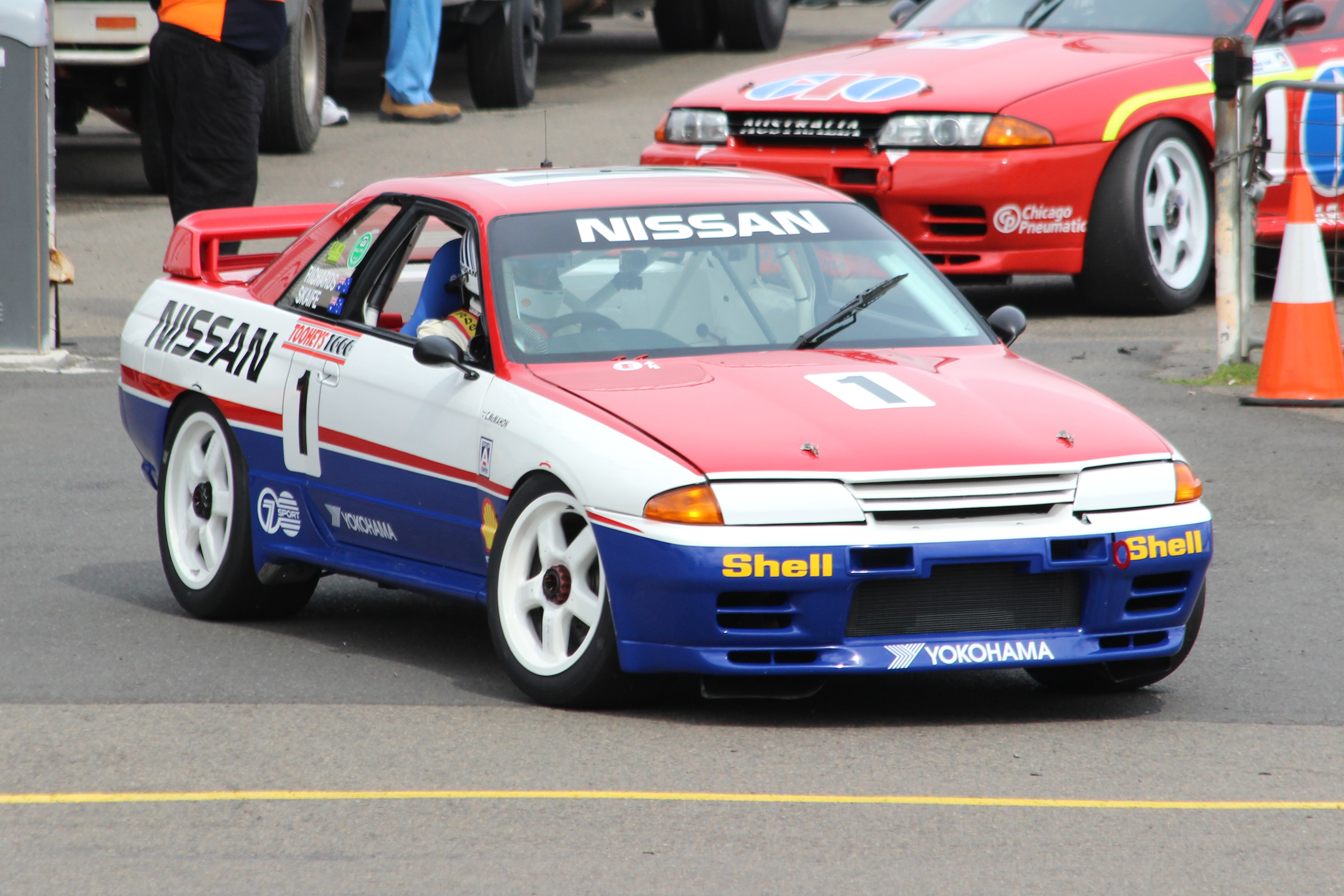 The Nissan Skyline BNR32 GT-R which was raced by Jim Richards and Mark Skaife in the 1991 Bathurst 1000, pictured at the 2015 Muscle Car Masters.